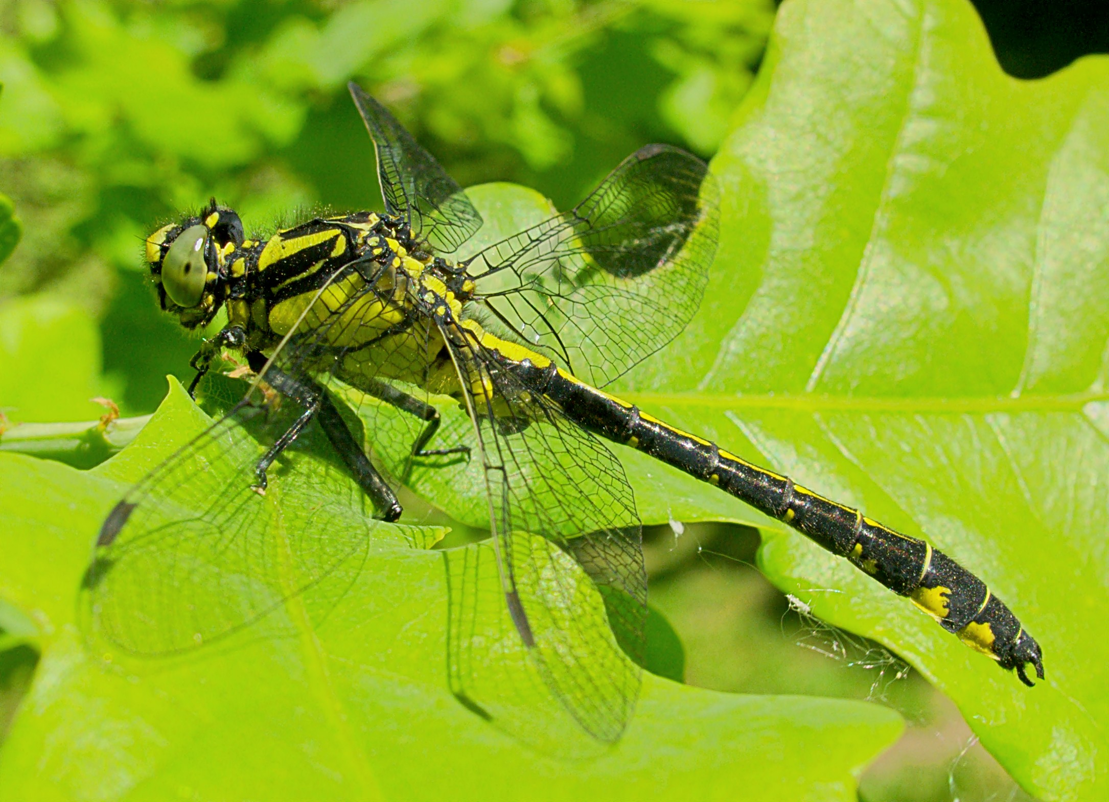 Name: Gomphus vulgatissimus, male. Family: Gomphidae. Location: Münster, NRW, Germany